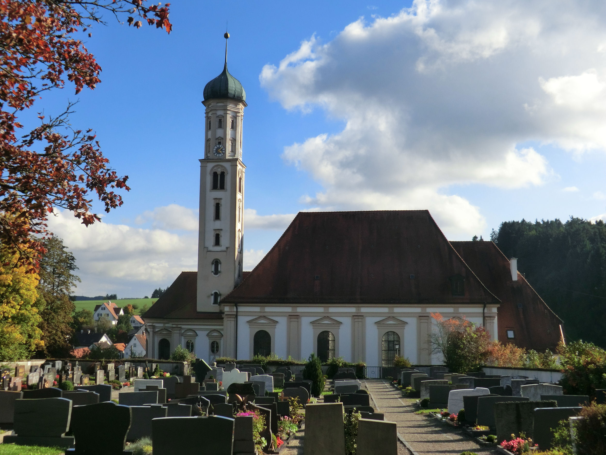 Church of St. Michael Native nameWallfahrtskirche St. MichaelLocationViolau, Swabia (administrative region), GermanyCoordinates48° 27′ 03.24″ N, 10° 34′ 17.04″ E Authority control : Q2321710 GND: 4324437-3 institution QS:P195,Q2321710